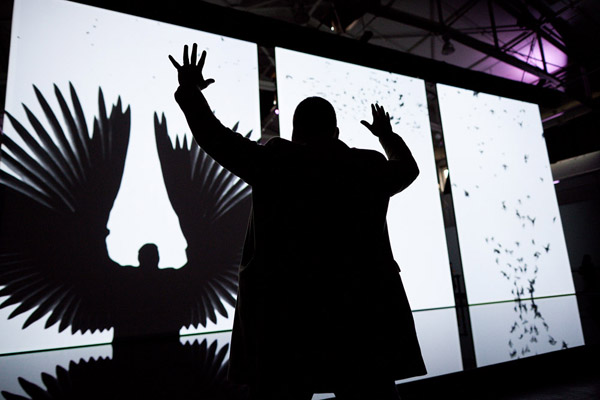 San Francisco, CA Photo by Bryan Derballa